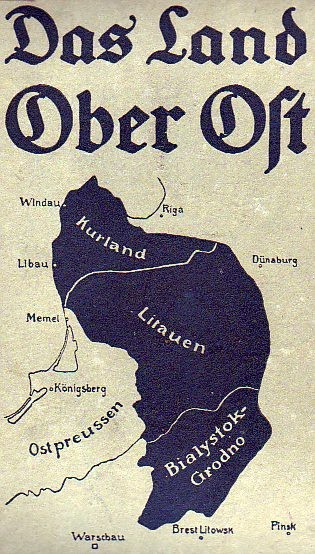 Public notice representing the "German Ober Ost" region in 1917.